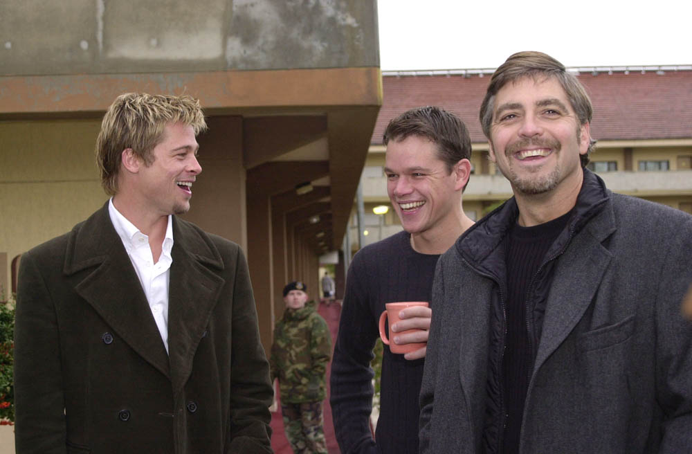 Brad Pitt, Matt Damon and George Clooney enjoy a morning laugh prior to their Dec. 7 tour of Incirlik Air Base, Turkey. The trio, along with Julia Roberts and Andy Garcia, visited the base to show their appreciation for U.S. troops overseas.